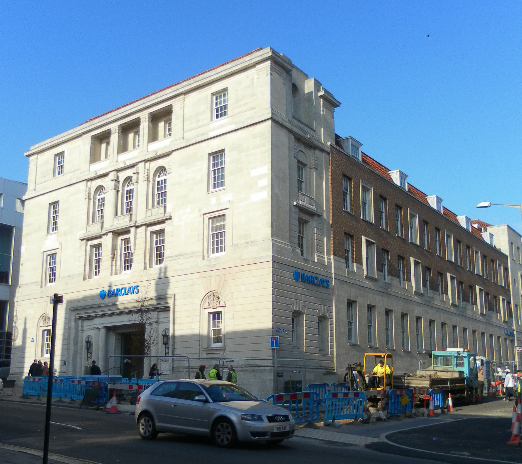 Barclays Bank branch, North Street, City of Brighton and Hove, England. Designed in 1957–59 by John Leopold Denman and his son John B. Denman.